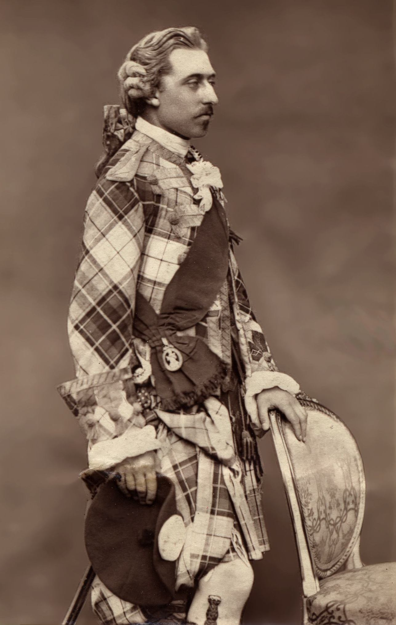 A woodburytype photographic print of Arthur, Duke of Connaught, son of Queen Victoria and Prince Albert